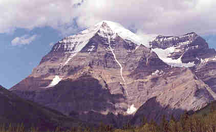 The south face of Mount Robson; Mount Robson Provincial Park, British Columbia, Canada.